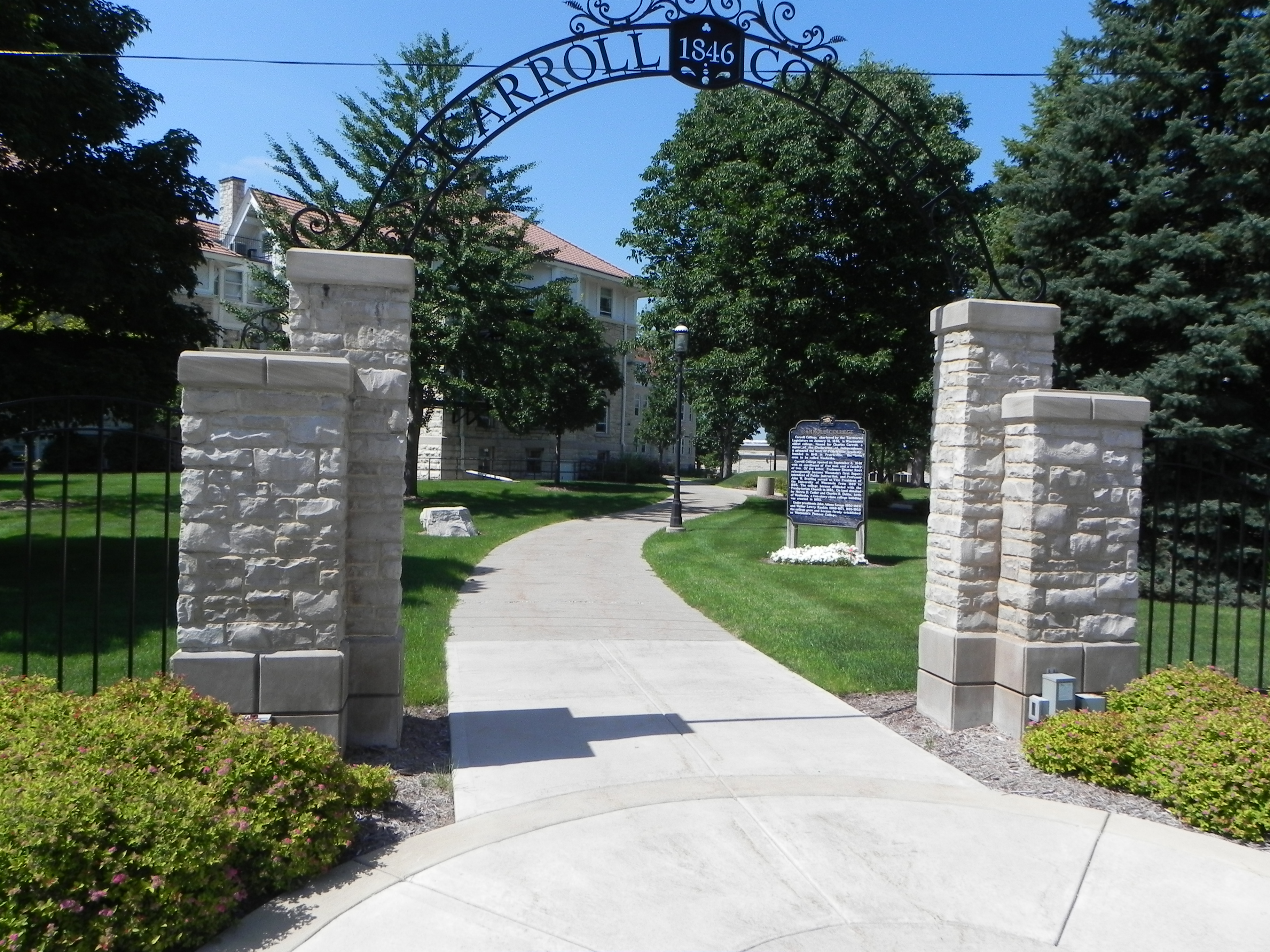 College Avenue Historic District